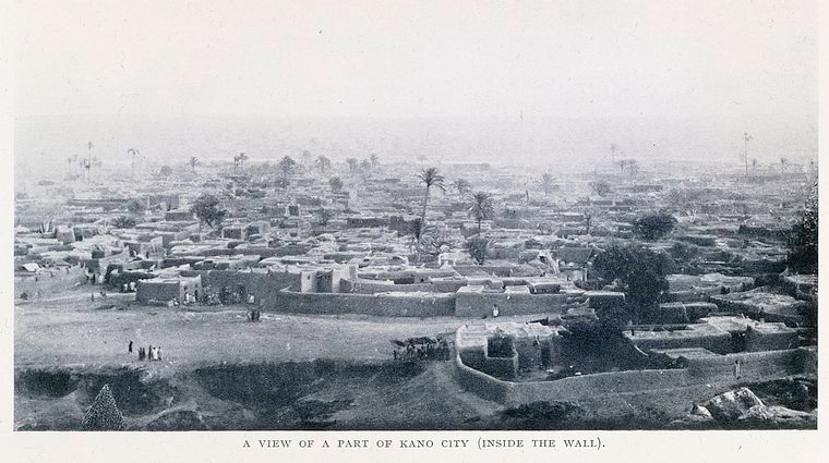 "A view of a part of Kano city (inside the wall)"